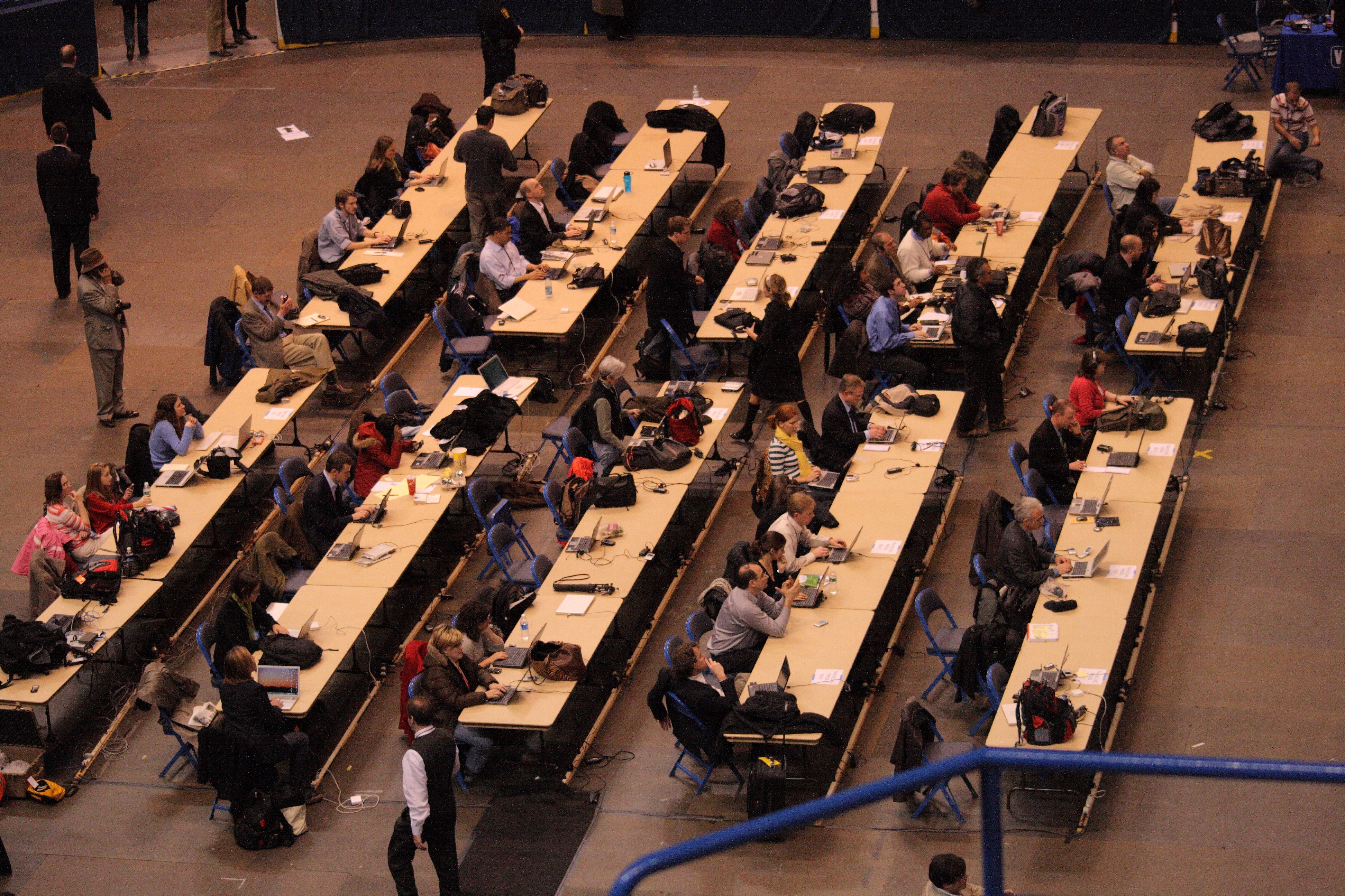 The press tables, full of journalists, at a Barack Obama rally in Hartford, Connecticut